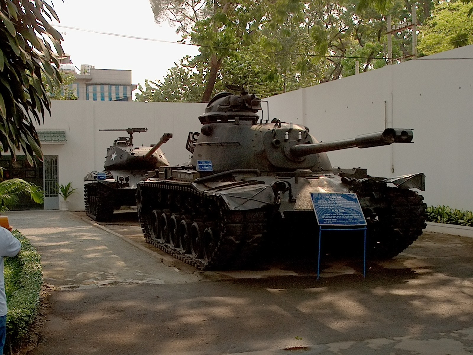 War Remnants Museum, Ho Chi Minh City (Saigon) Vietnam